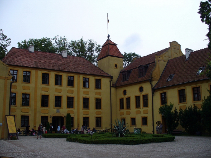 Palace in Krokowa, POLAND